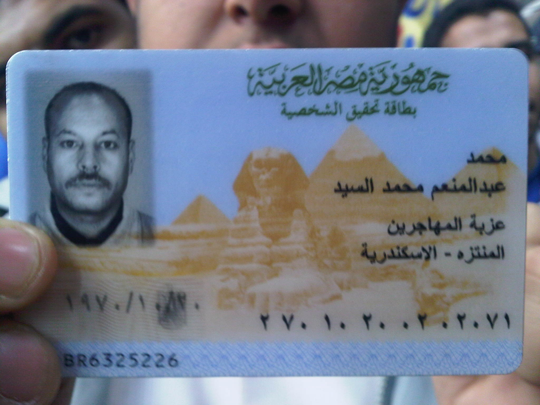 This ID is of an undercover security officer who tried to start a fight, he was apprehended but not hurt, however, he said he was paid to come and start trouble.